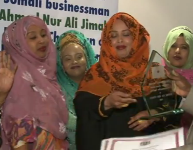 Somali women at a social event in support of Al-Barakaat.